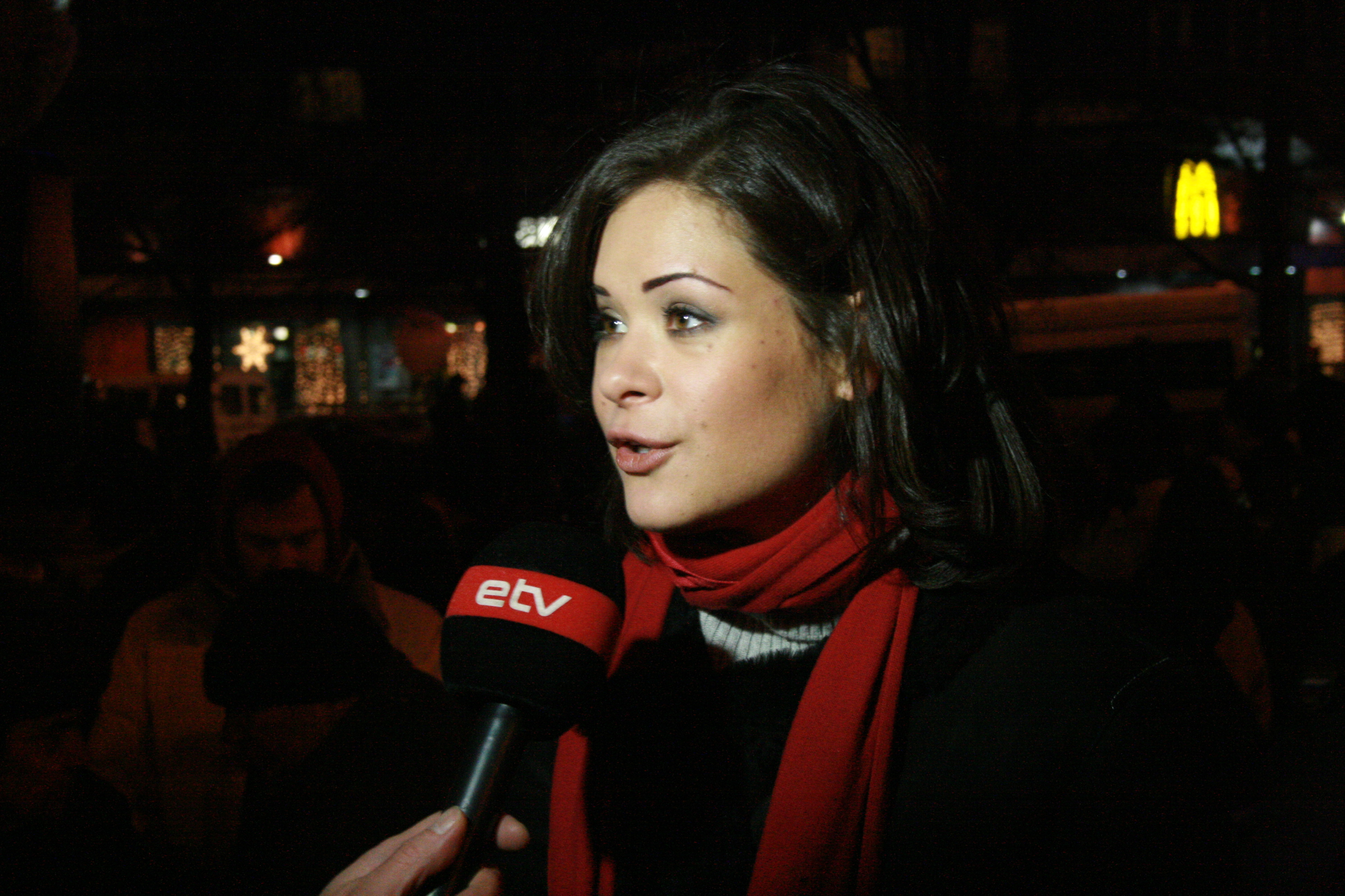 Maria Gaidar.